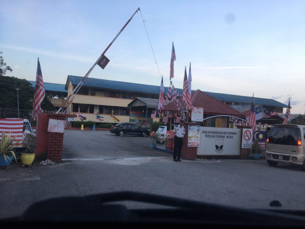 SKKT 1 (sudut pandangan hadapan)